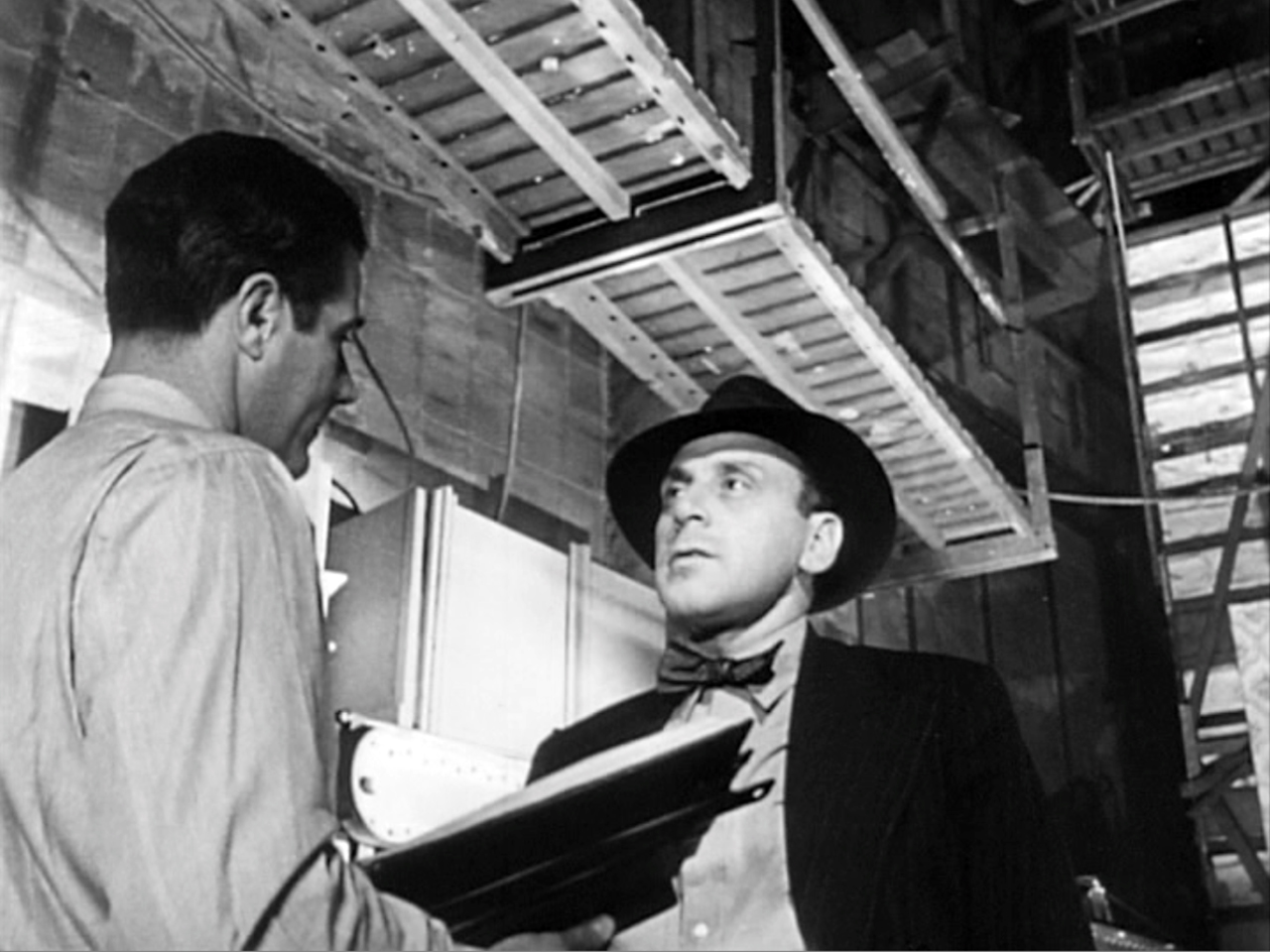 Screenshot of George Coulouris from the Citizen Kane trailer